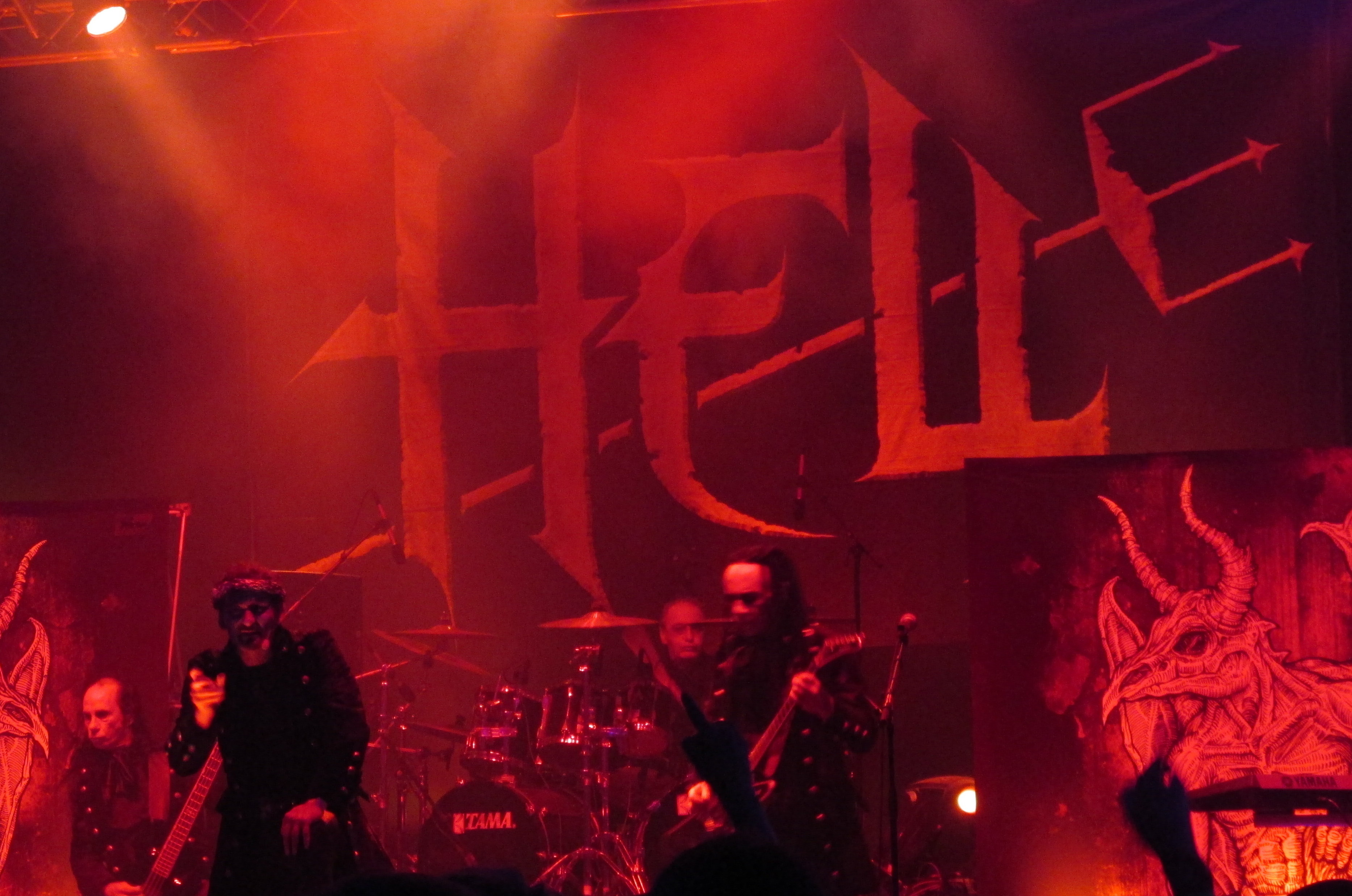 Hell performing at Wacken 2014